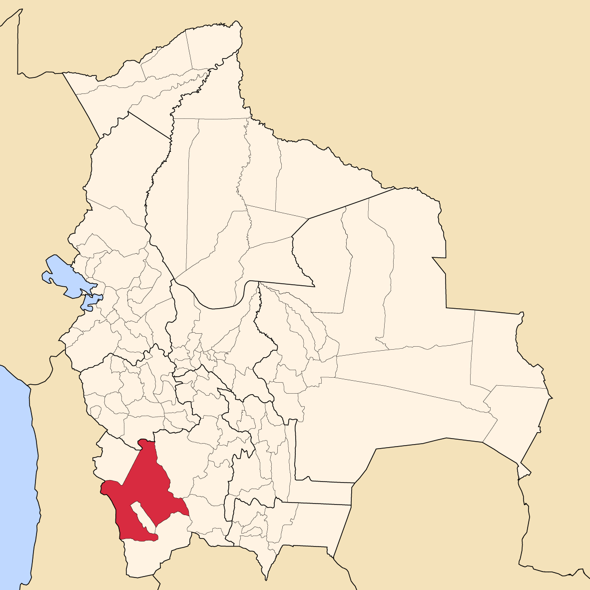 Map of Bolivia showing Nor Lípez province, Potosí